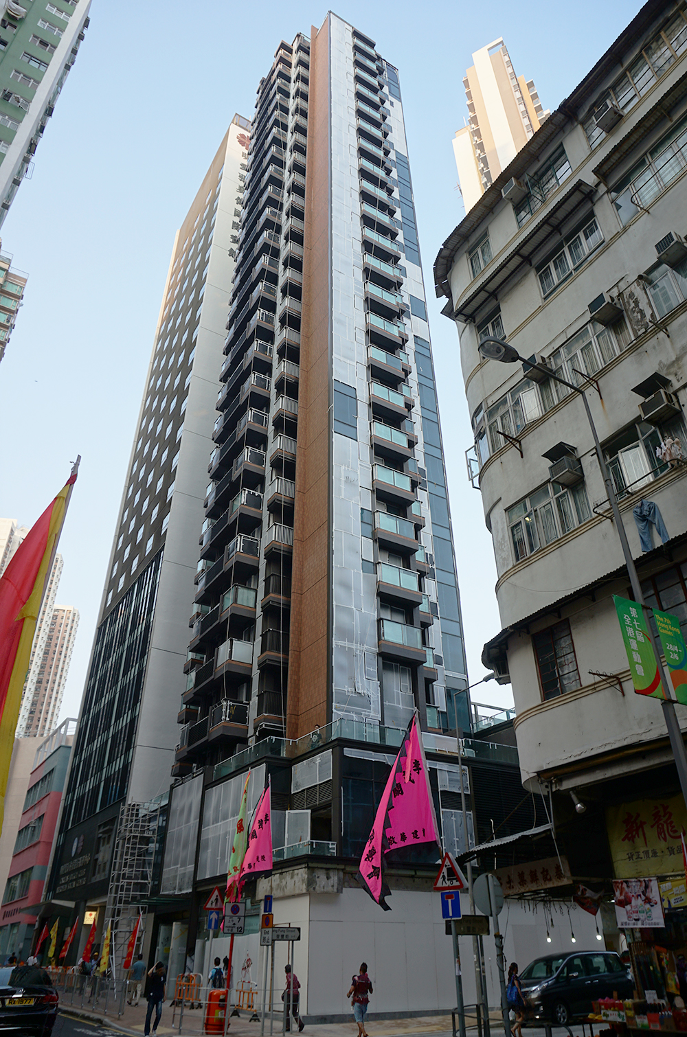 South Walk·Aura in Tin Wan, Hong Kong.